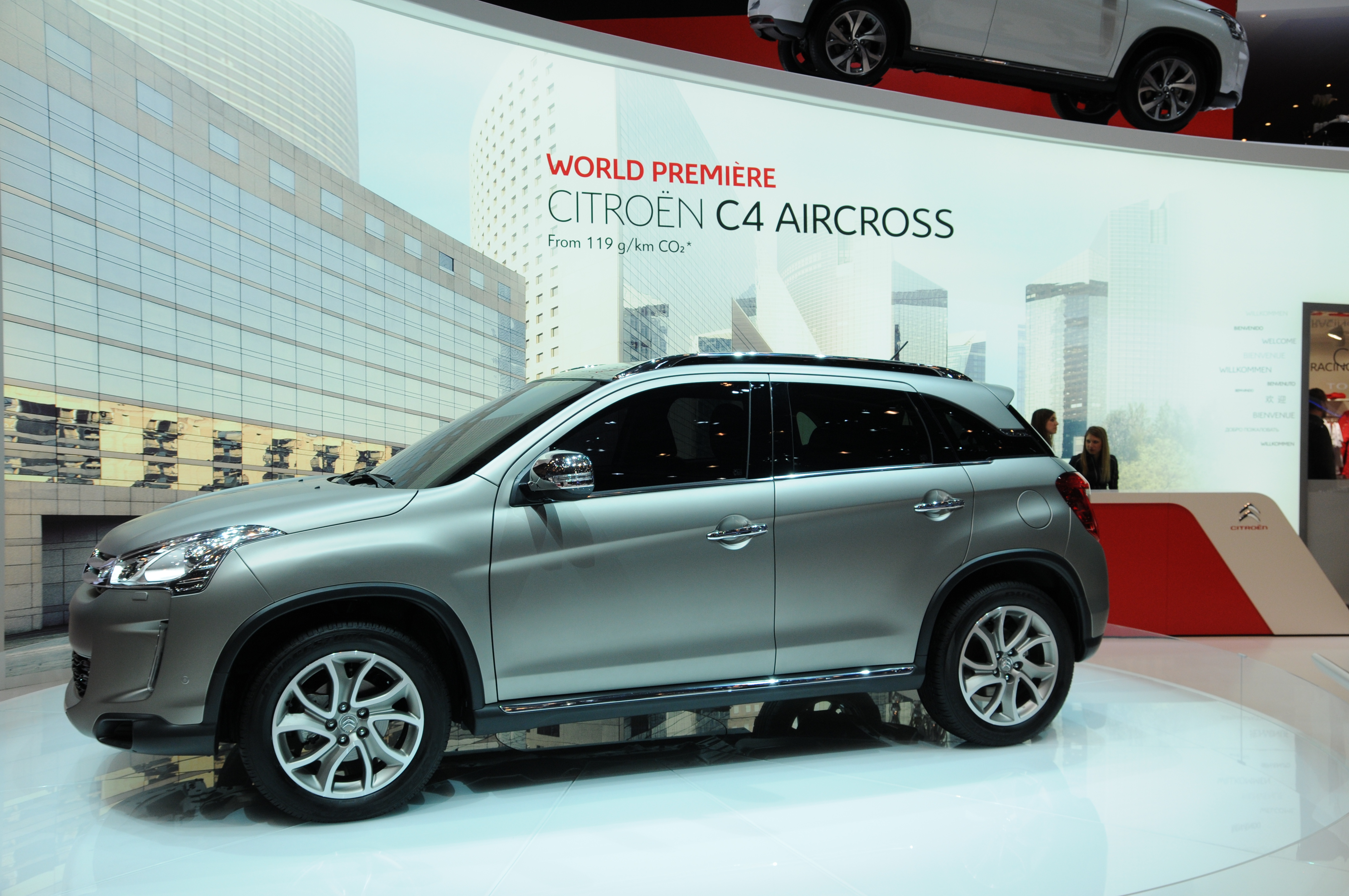 Geneva Motor Show 2012 (photos taken on the second press day)